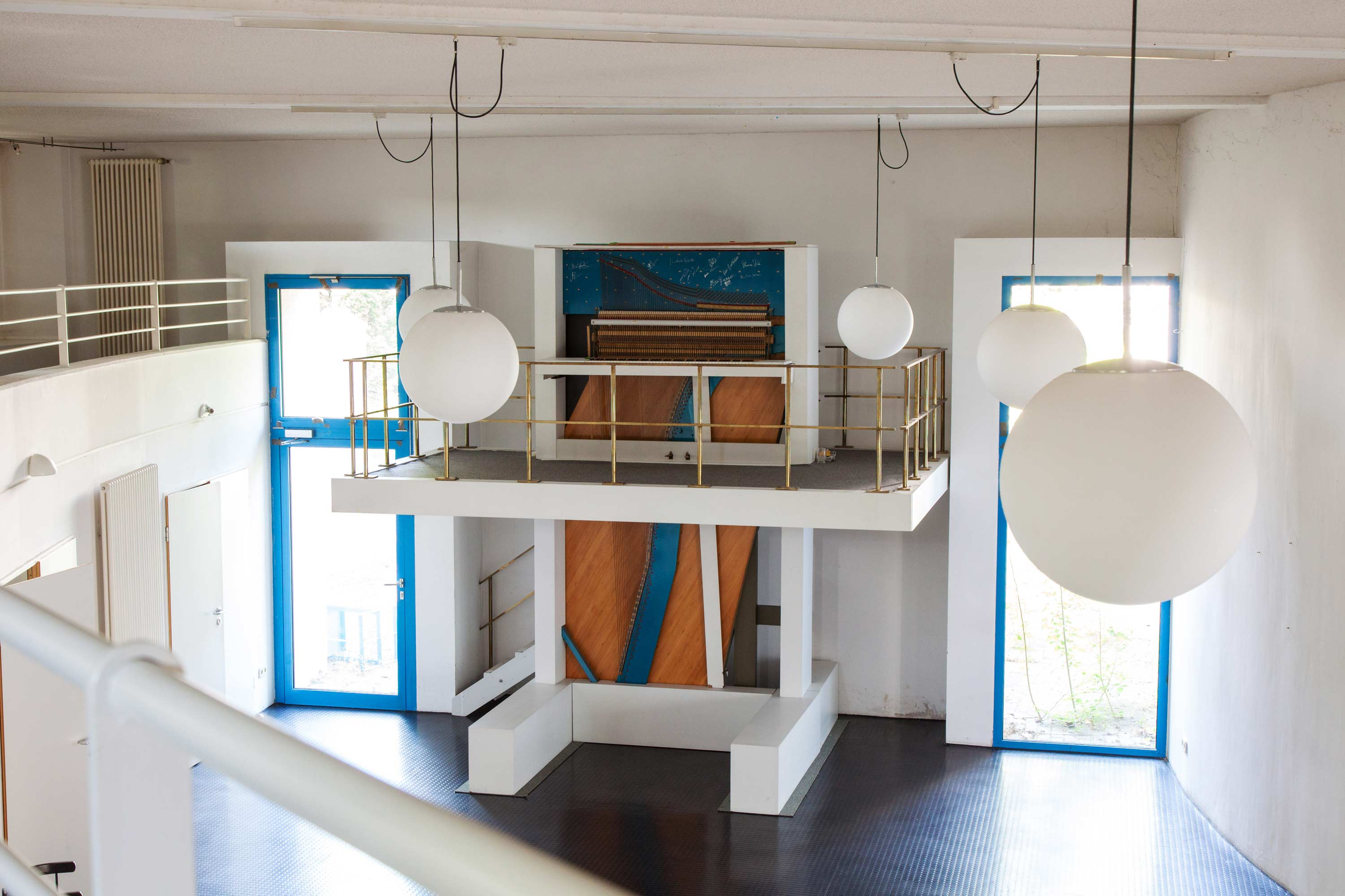 David Klavins' vertical piano "Modell 370", built in 1987 and known as the largest piano in the world. The lowest strings are longer than 3 meters. In 2012 a Berlin music software company released a digital version with samples of the original Modell 370 and called it The Giant.